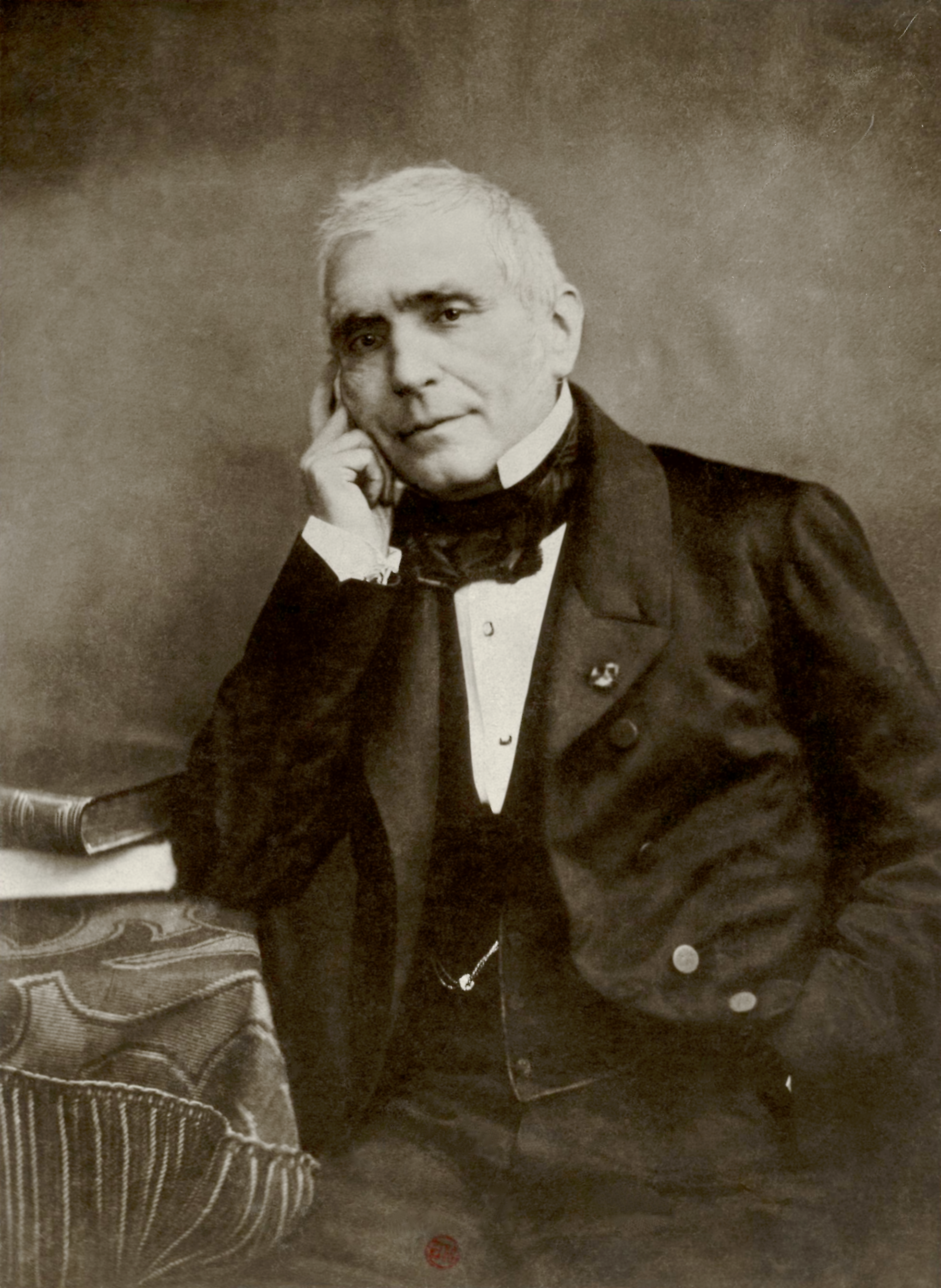 Eugène Scribe (1791–1861) French dramatist and librettist.